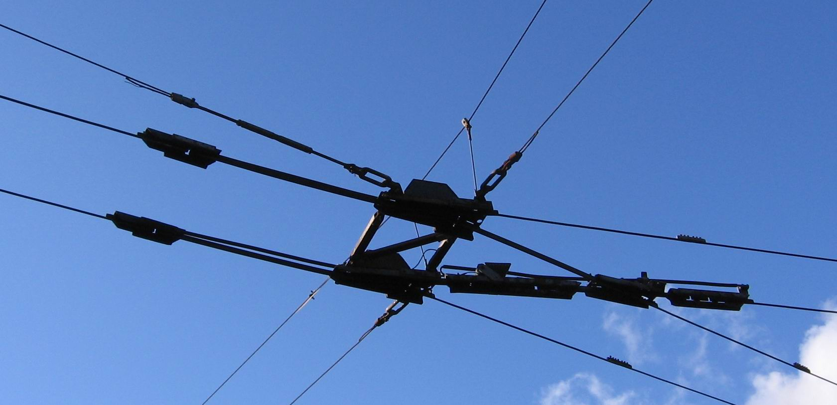 Such three-way trolleybus wire switches were used in the USSR. Sensors are visible before the switch, with wires leading to the electromagnetic latch.